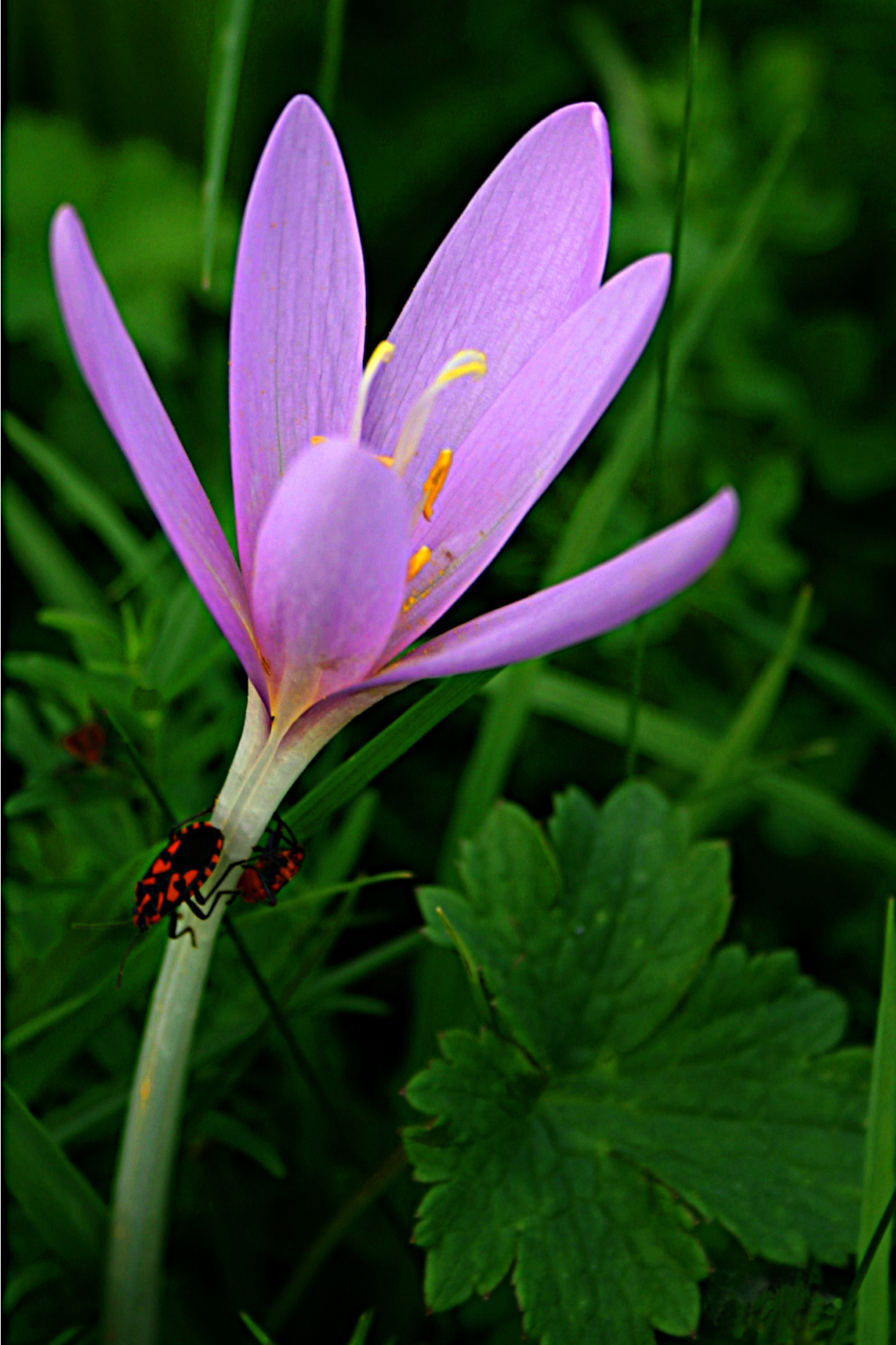 Colchicum autumnale, one of the 258 identified species, in a meadow in the Jura, France